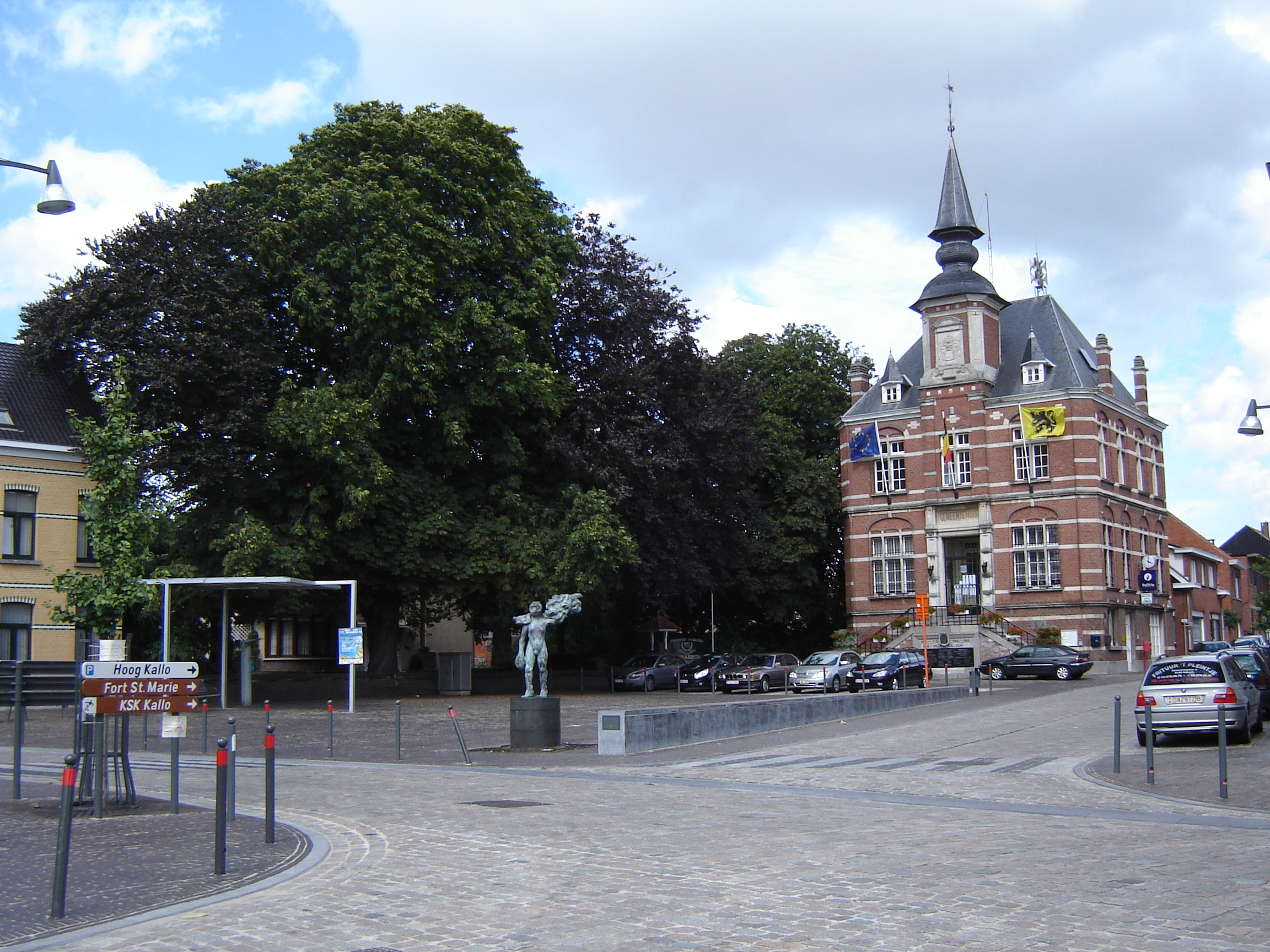 Gemeenteplein, market square in Kallo. Kallo, Beveren, East Flanders, Belgium